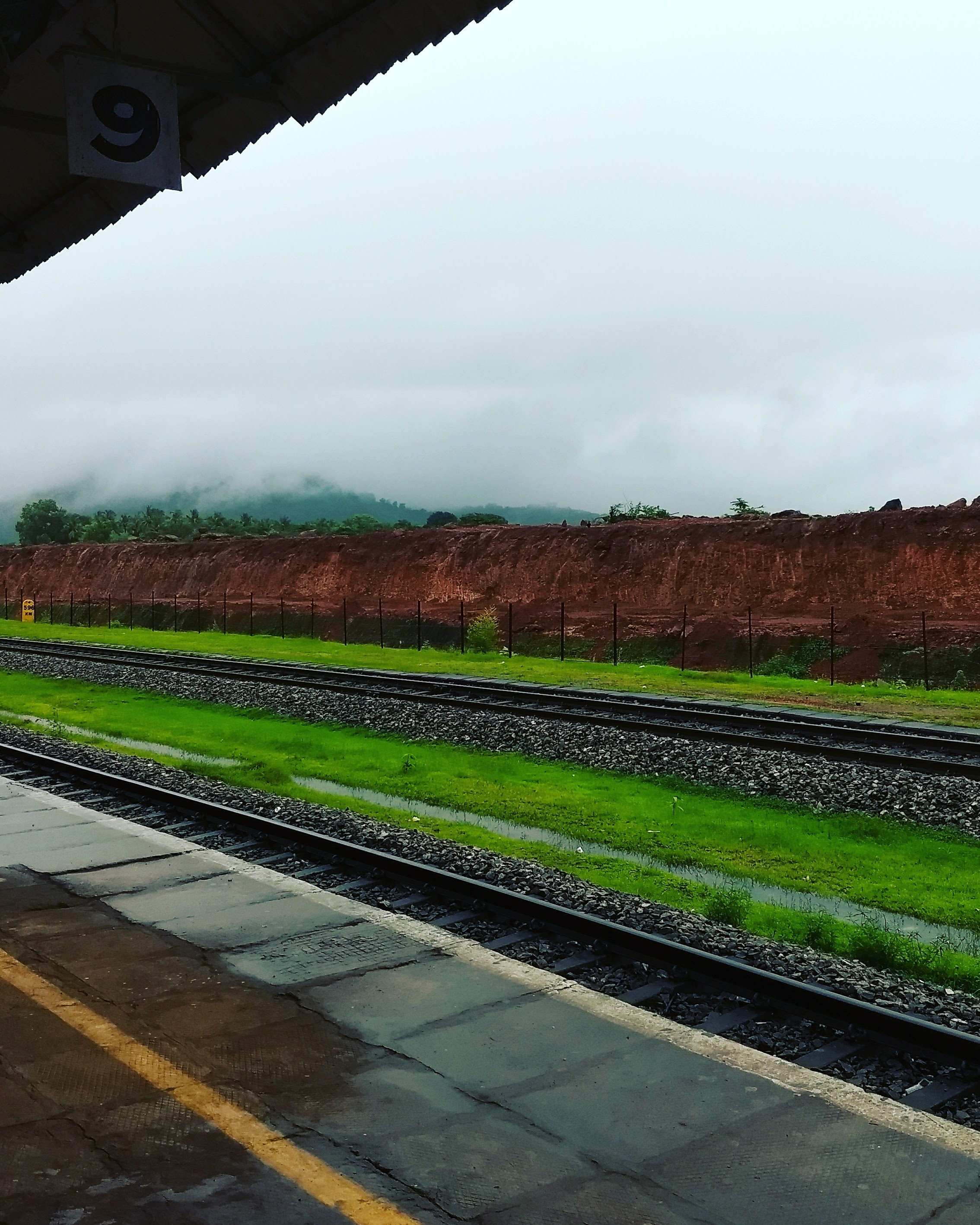 The Murdeshwar Railway Station, an Indian railway stations with station code MRDW.